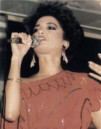 American singer, entertainer and 1984 Miss America Suzette Charles during the 1985 USO Christmas show aboard the U.S. Navy aircraft carrier USS Coral Sea (CV-43). The Coral Sea, with assigned Carrier Air Wing 13 (CVW-13), was deployed to the Mediterranean Sea from 1 October 1985 to 19 May 1986.